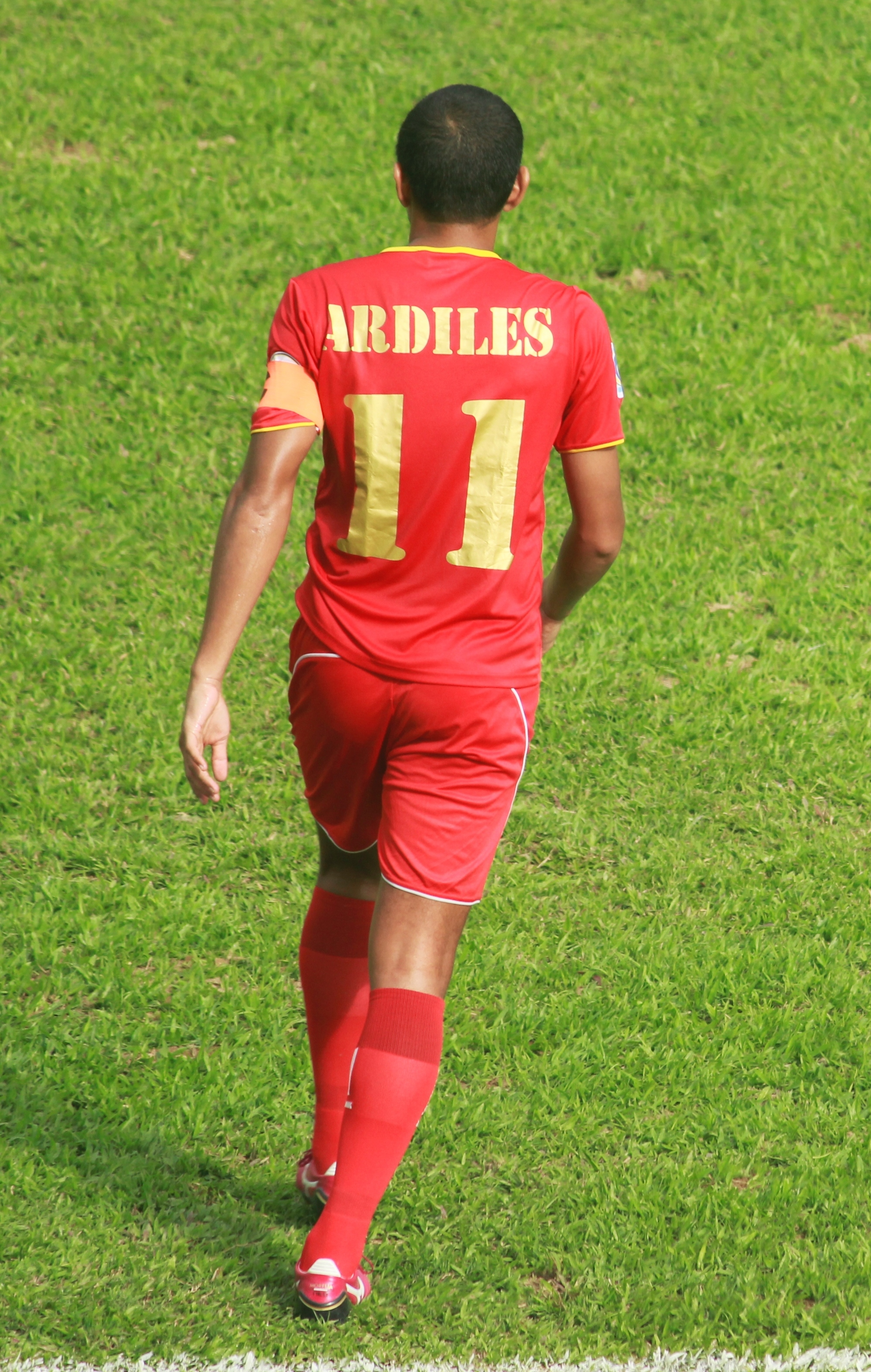 Hengky Ardiles playing for Semen Padang against Sime Darby, 30 December 2013 in Padang.